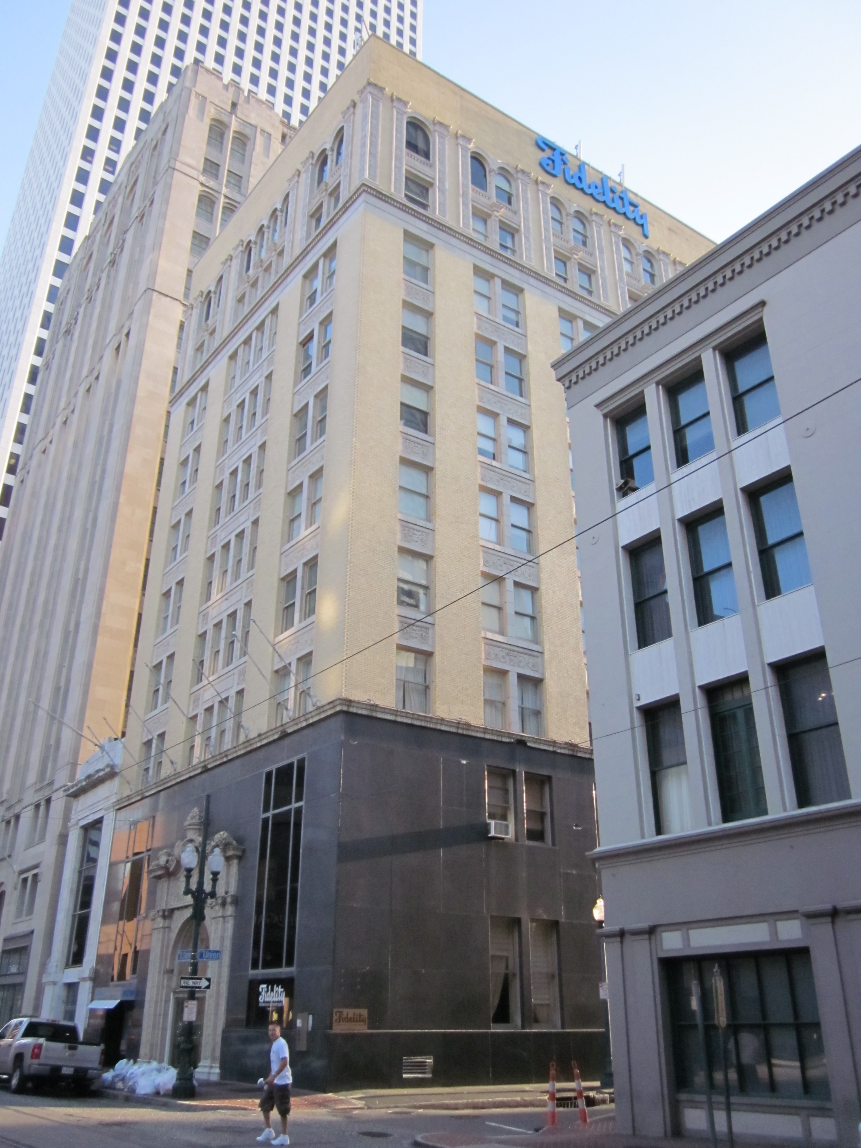 St. Charles Avenue, New Orleans Central Business District, down from Poydras Street. Former United Fruit Company building, now Fidelity Bank.